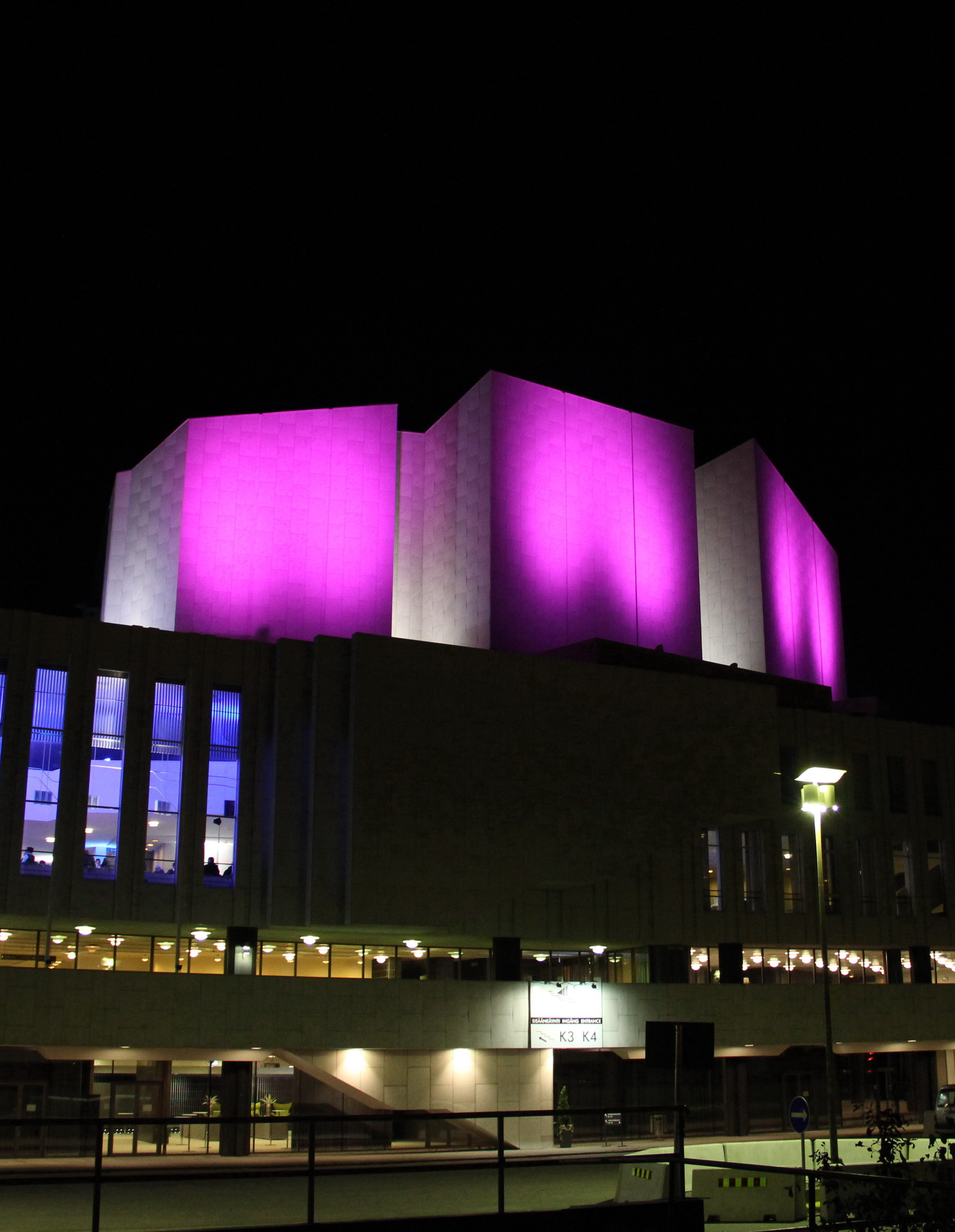 Finlandia Hall, Helsinki, Finland. It was illuminated pink to support the first ever UN International Day of the Girl Child on 2012-10-11.